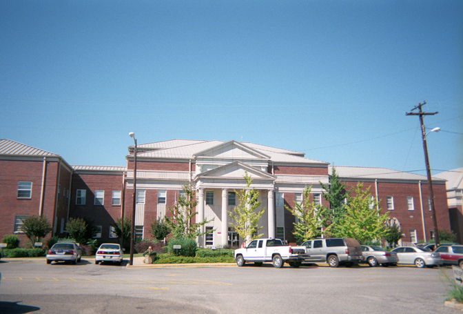 Clarke County Courthouse (Built 1955), Grove Hill, Alabama. The historic district that includes and centers on this courthouse is listed on the National Register of Historic Places and the Alabama Register of Landmarks and Heritage.